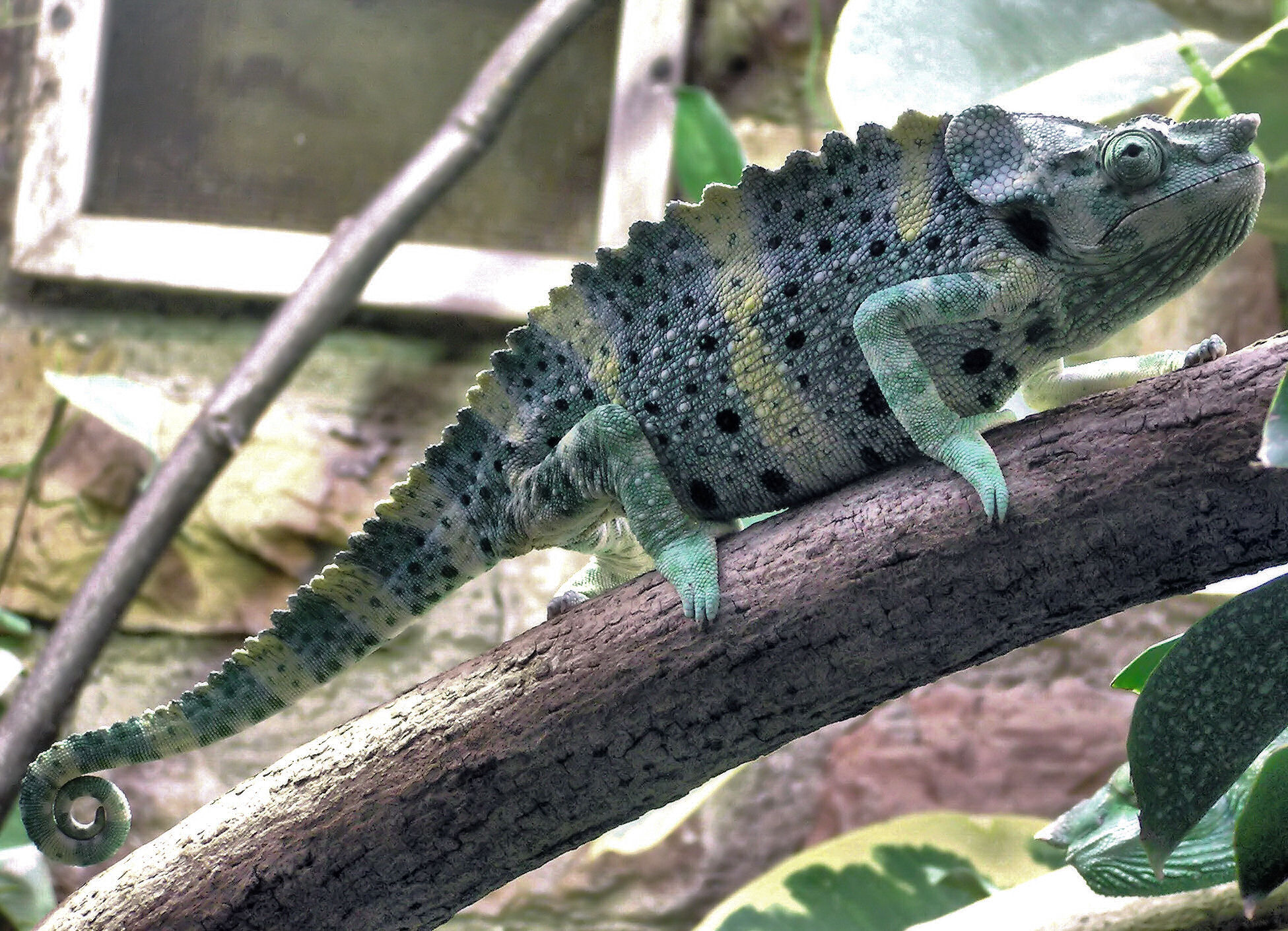 Meller’s Chameleon Chamaeleo melleri at Bristol Zoo, Bristol, England